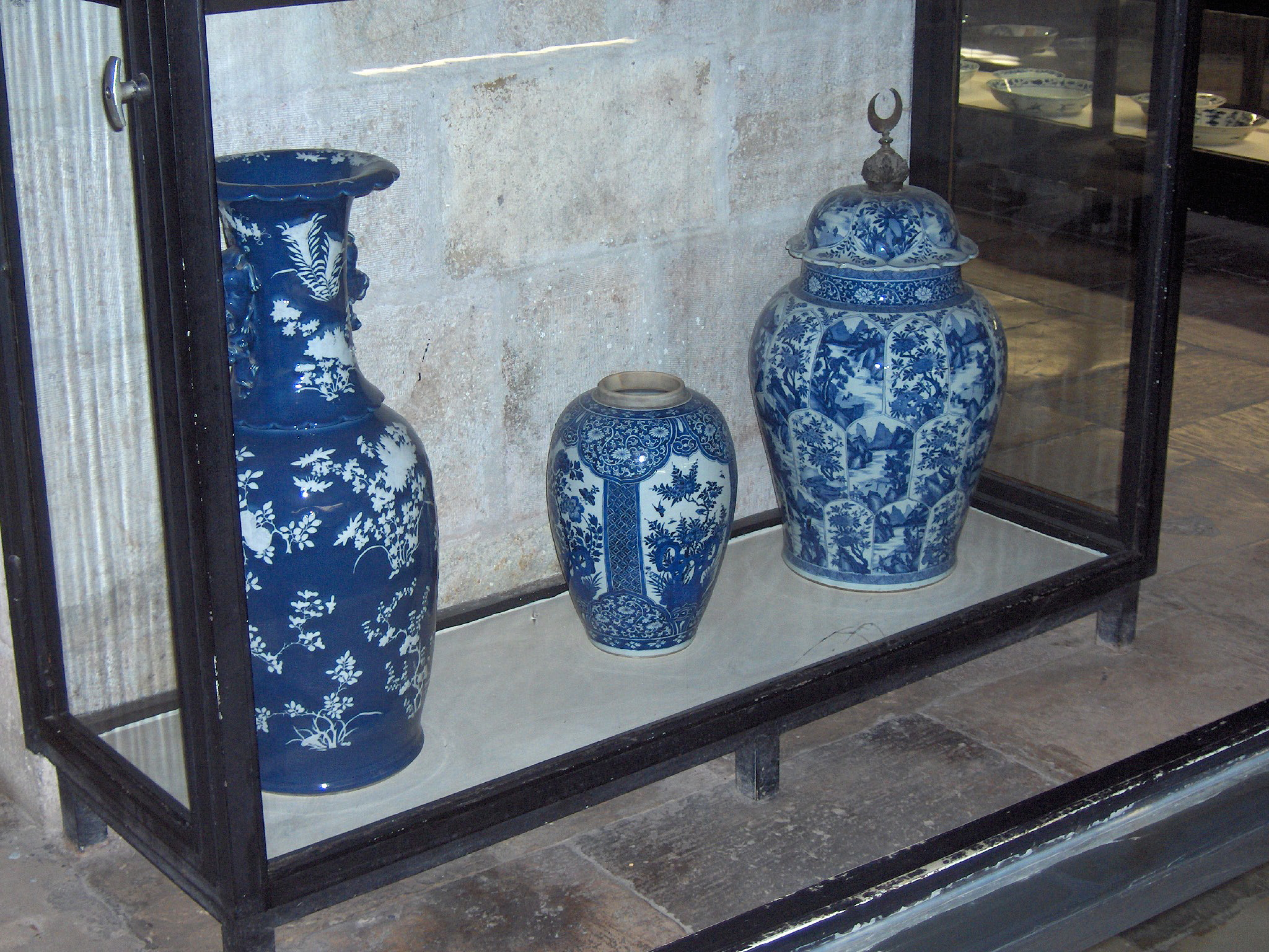 Kitchen; collection of Chinese porcelain from the blue-and-white collection; Topkapı Palace, Istanbul, Turkey